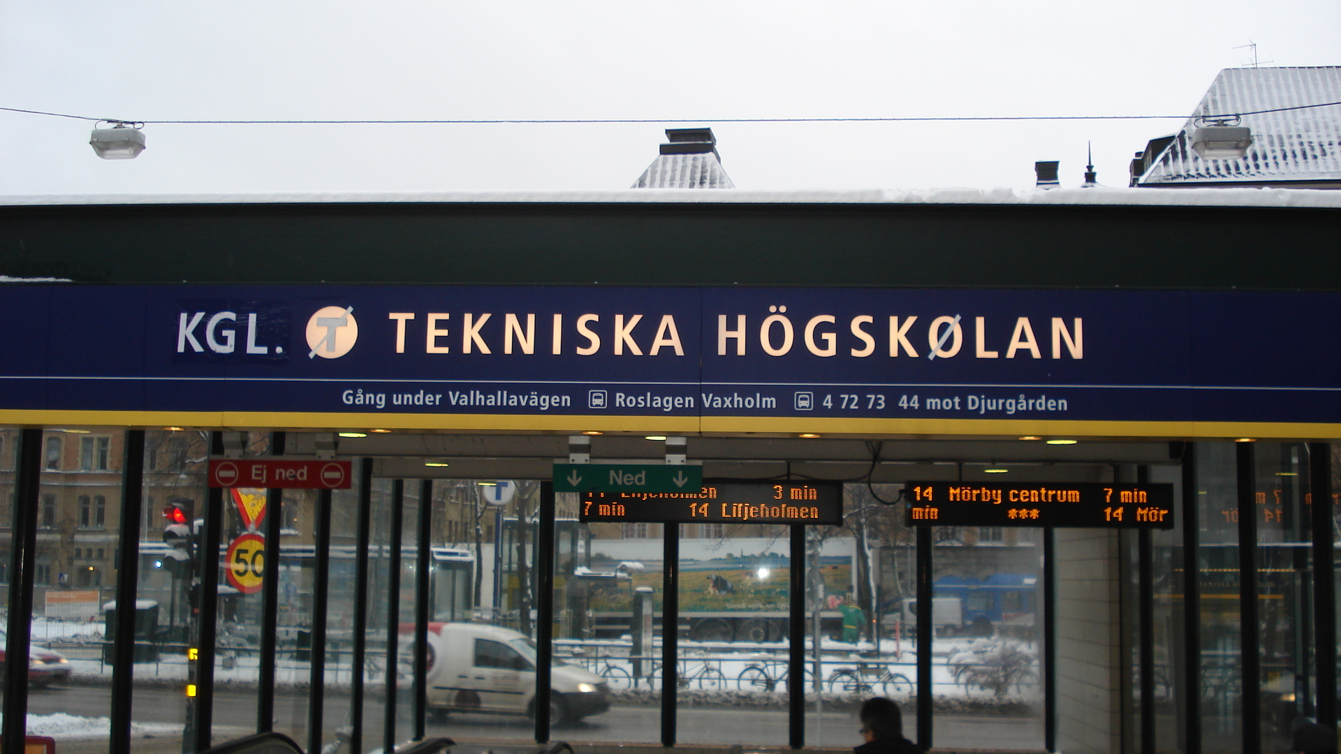 Foto of Metro station KTH